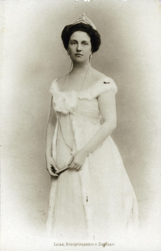 Erzherzogin Luise von Österreich-Toskana, Kronprinzessin von Sachsen